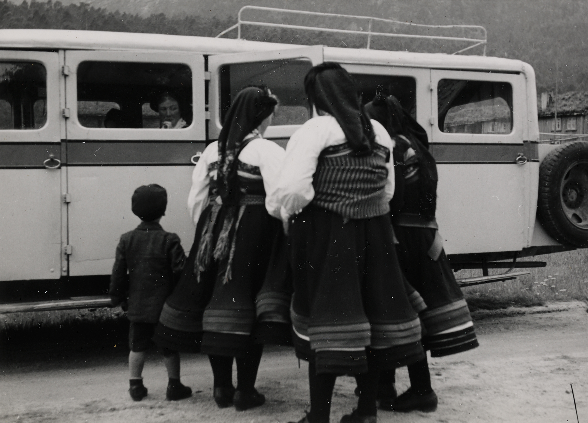 Meyer, Elisabeth Three women and a child in front of a bus. Photographs from Setesdal around 1940-42. Gelatin silver print, baryta NMFF.002574-26